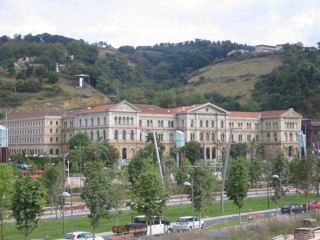 University of Deusto, Bilbao, Spain.